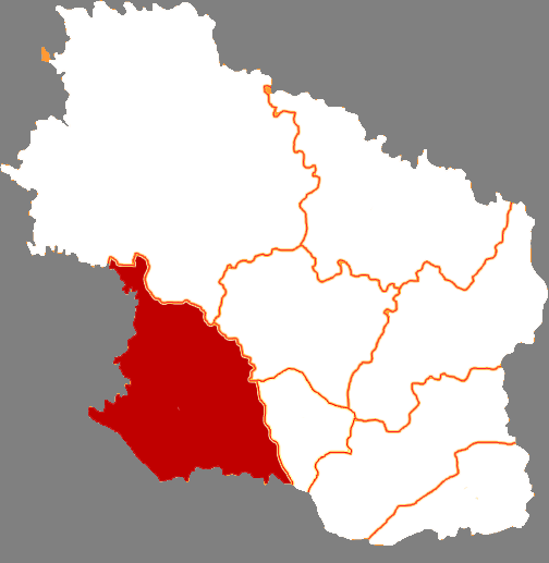 Location of Zhenyuan county in Qingyang city, China